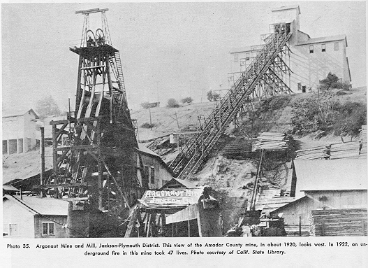 "This photo was scanned from California Division of Mines Bulletin 193, Gold Districts of California, page 72."